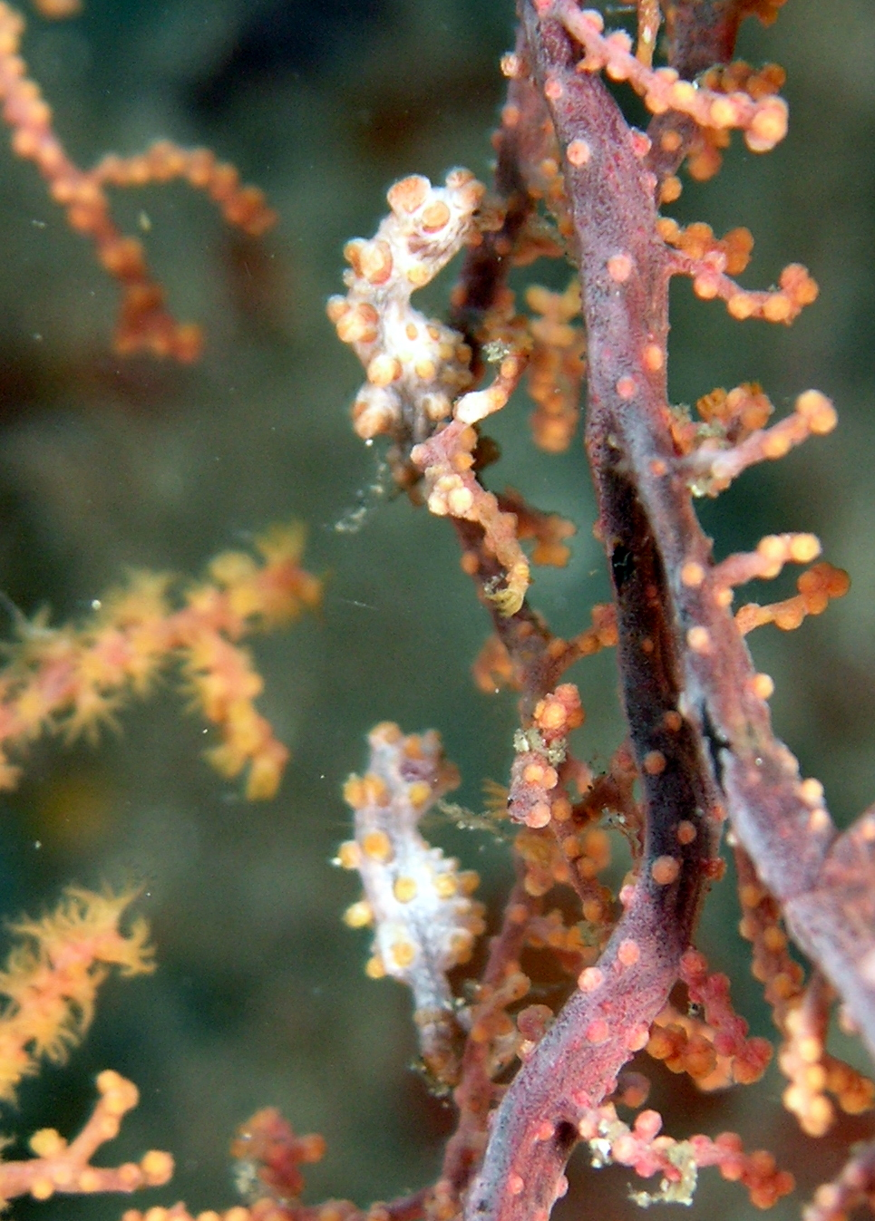 Image of Pygmy seahorse. Hippocampus bargibanti, yellow variation. Taken at Lembeh Straits, North Sulawesi, Indonesia.